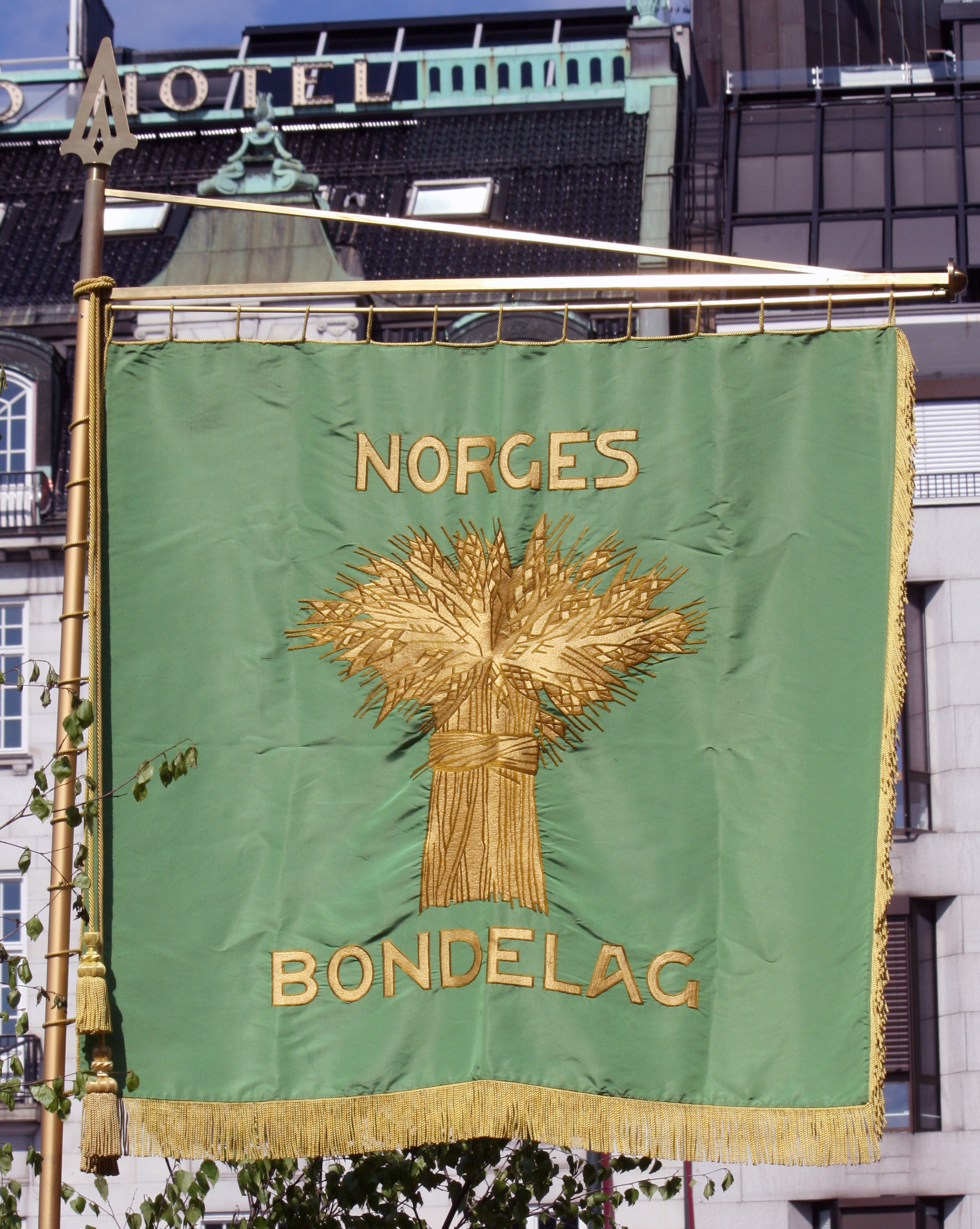 Banner of the Norwegian Farmers' Union